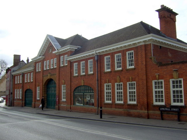 Morris garage, Longwall Street This building started life in 1910 as the Morris Cycle Works, where William Morris (1877-1963) who had been apprenticed to a bicycle seller at the age of 15, moved on to working with motorcycles and then cars. His operation soon outgrew the premises and he started making the Bullnose Morris at a factory in Cowley. This was the start of a huge car manufacturing empire. He was made Viscount Nuffield in 1938 and became a major benefactor to Oxford.